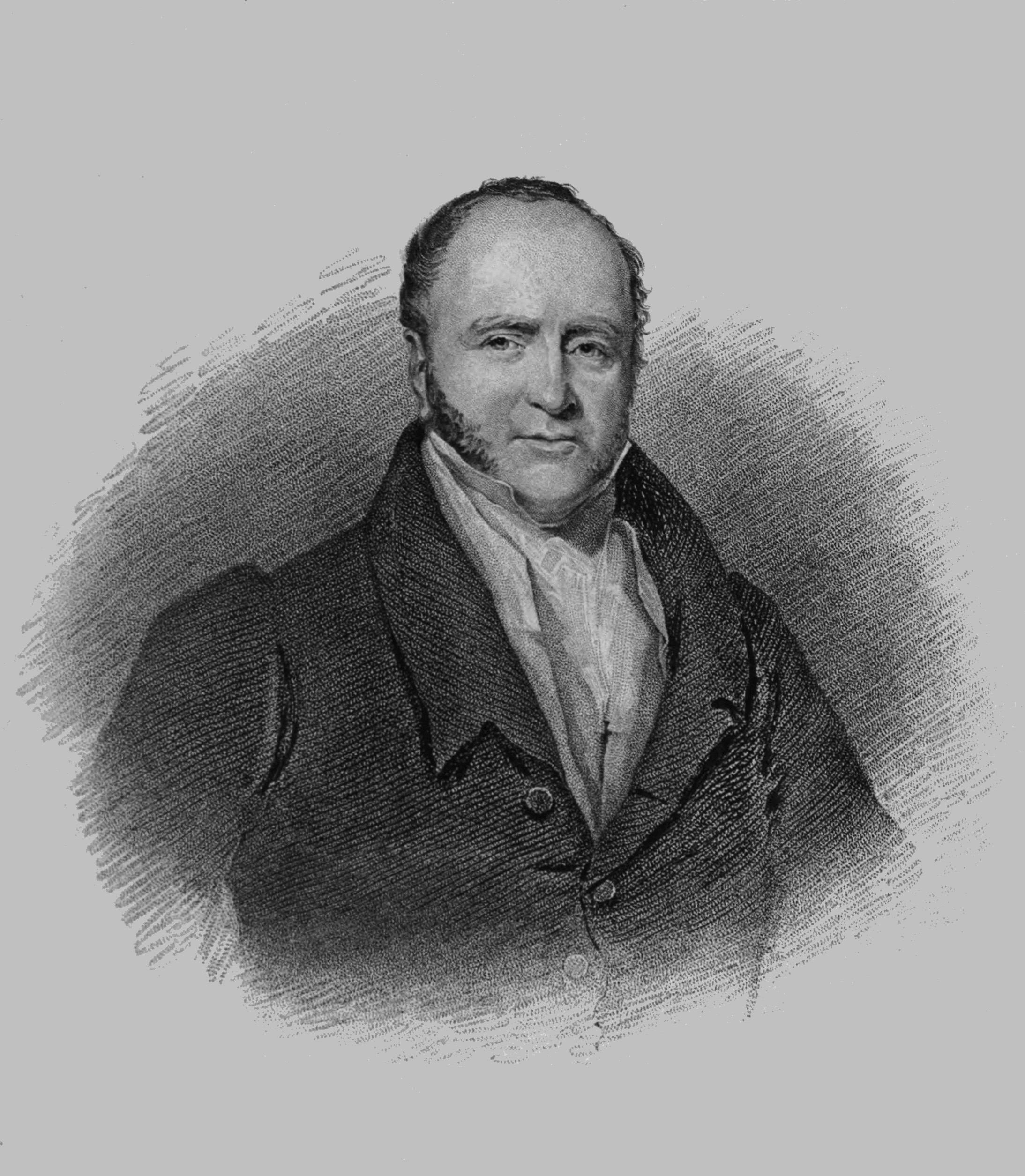 George Bennet (16 April 1774 – 13 November 1841) was a missionary originally from Sheffield, Yorkshire. He traveled to China, Southeast Asia, and India for the London Missionary , along with Reverend Daniel Tyerman.